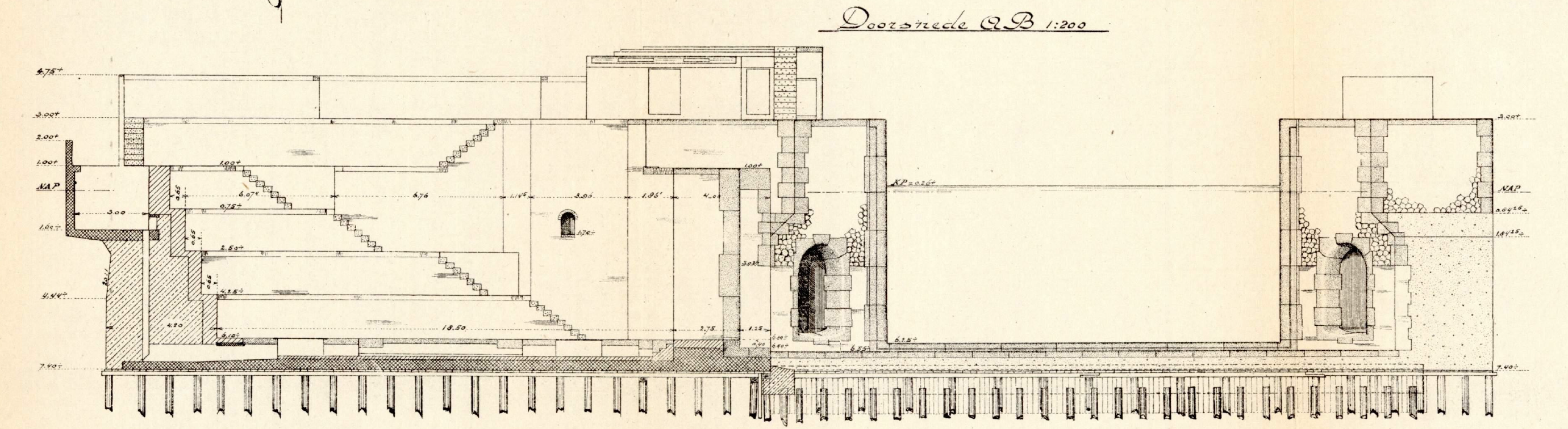 Detailed drawing of the cross section of the navigation lock at Hansweert, Netherlands in the "Kanaal door Zuid-Beveland". The lock is founded on (wooden) piles. Coss section at the location of the storage dock for spare lock doors.